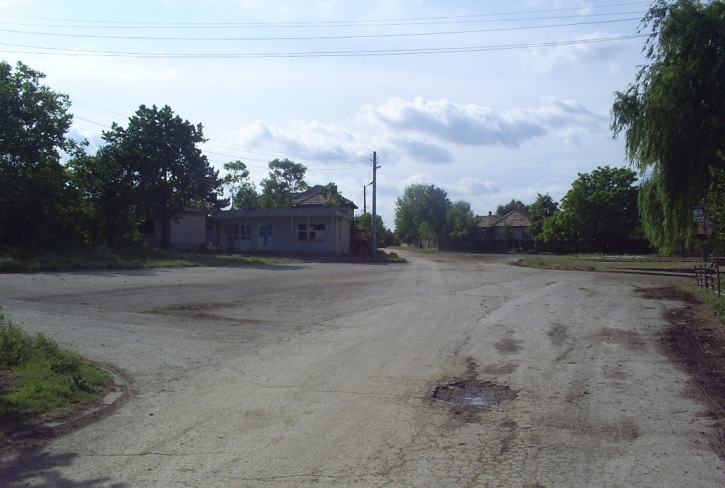 View of village Bonevo, Bulgaria